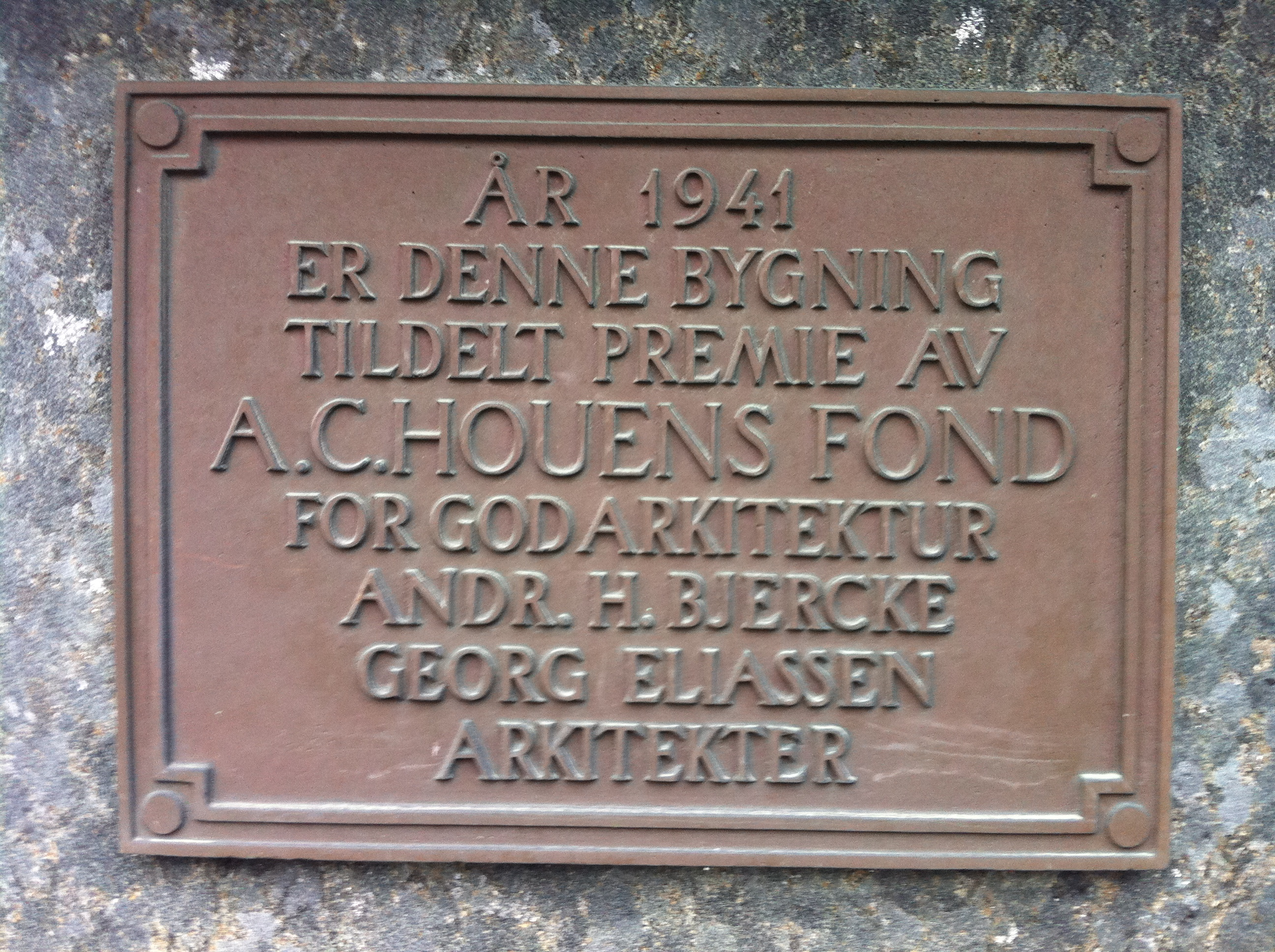 Rådhusgata 25 in Oslo, Norway. Norwegian Shipowners' Associations building, winner of the architectur prize Houens fonds diplom in 1941.